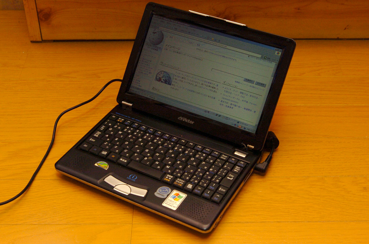 JVC InterLink MP-XP3210